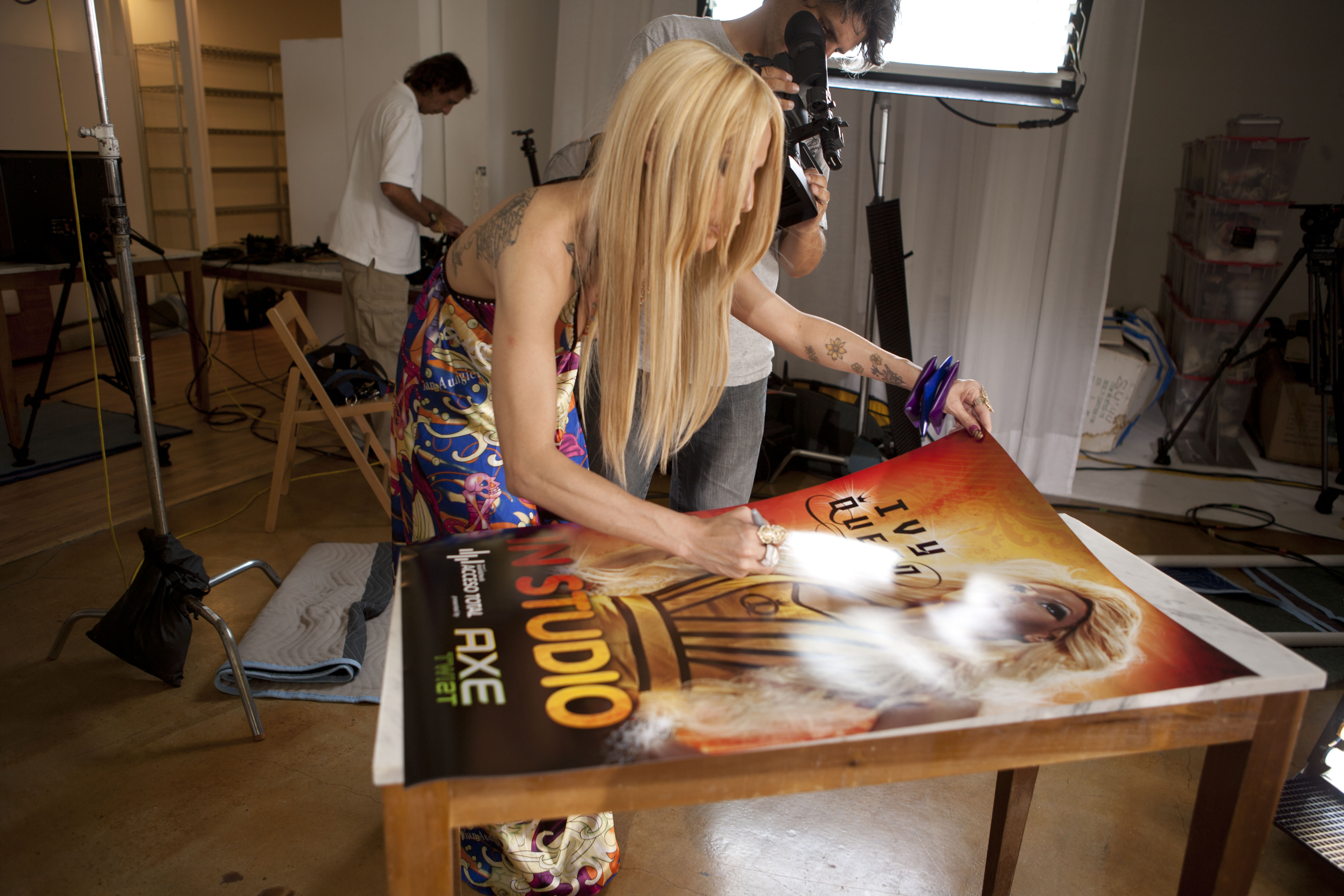 Ivy Queen on set.